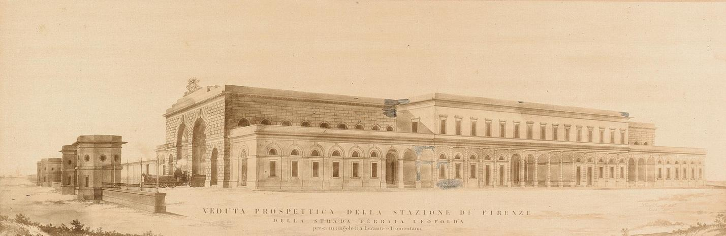 View of Leopold Station in Florence.